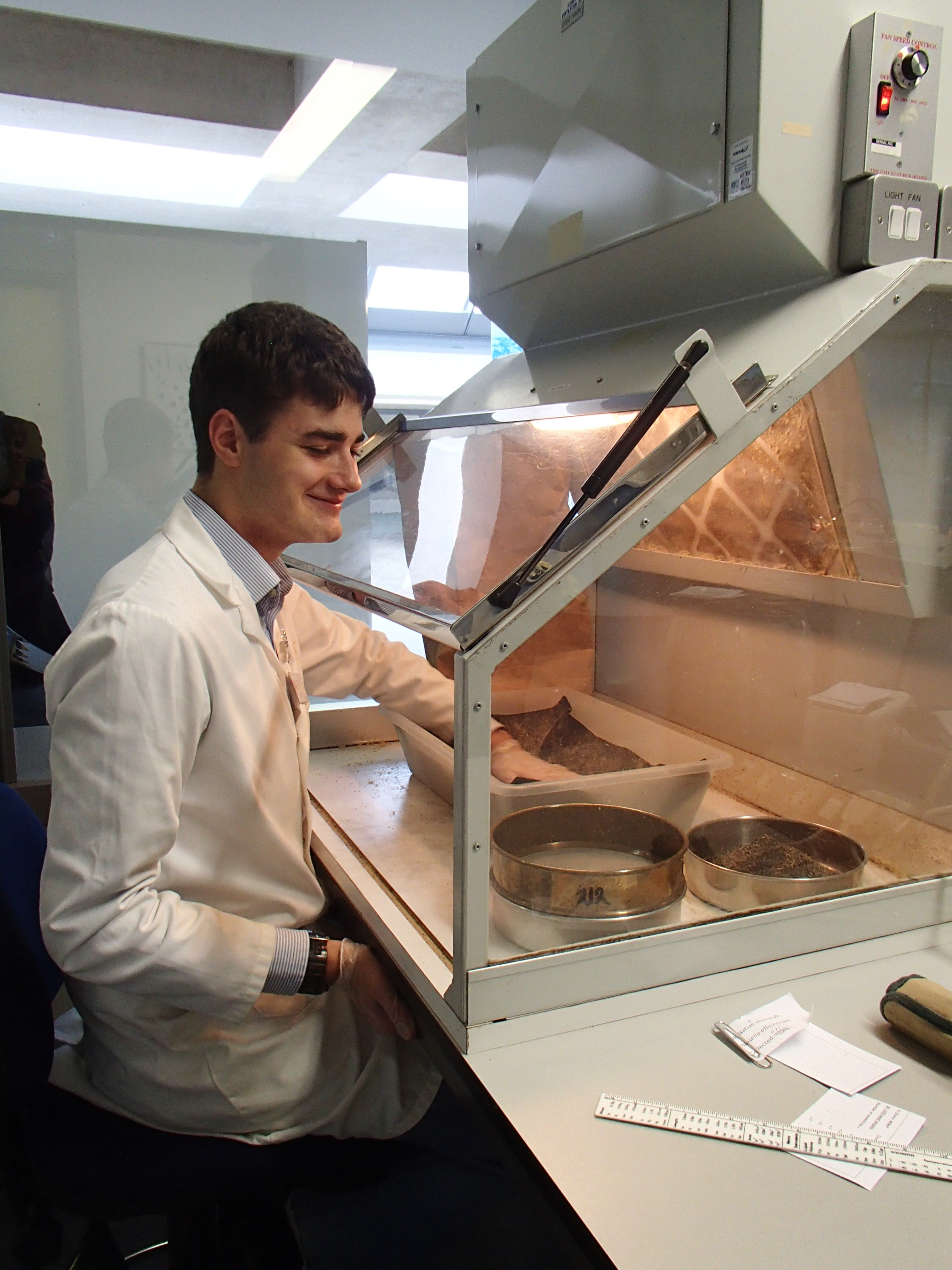 A placement student cleaning Pilosella officinarum at the Millennium Seed Bank. The procedure is being carried out in a dust hood.